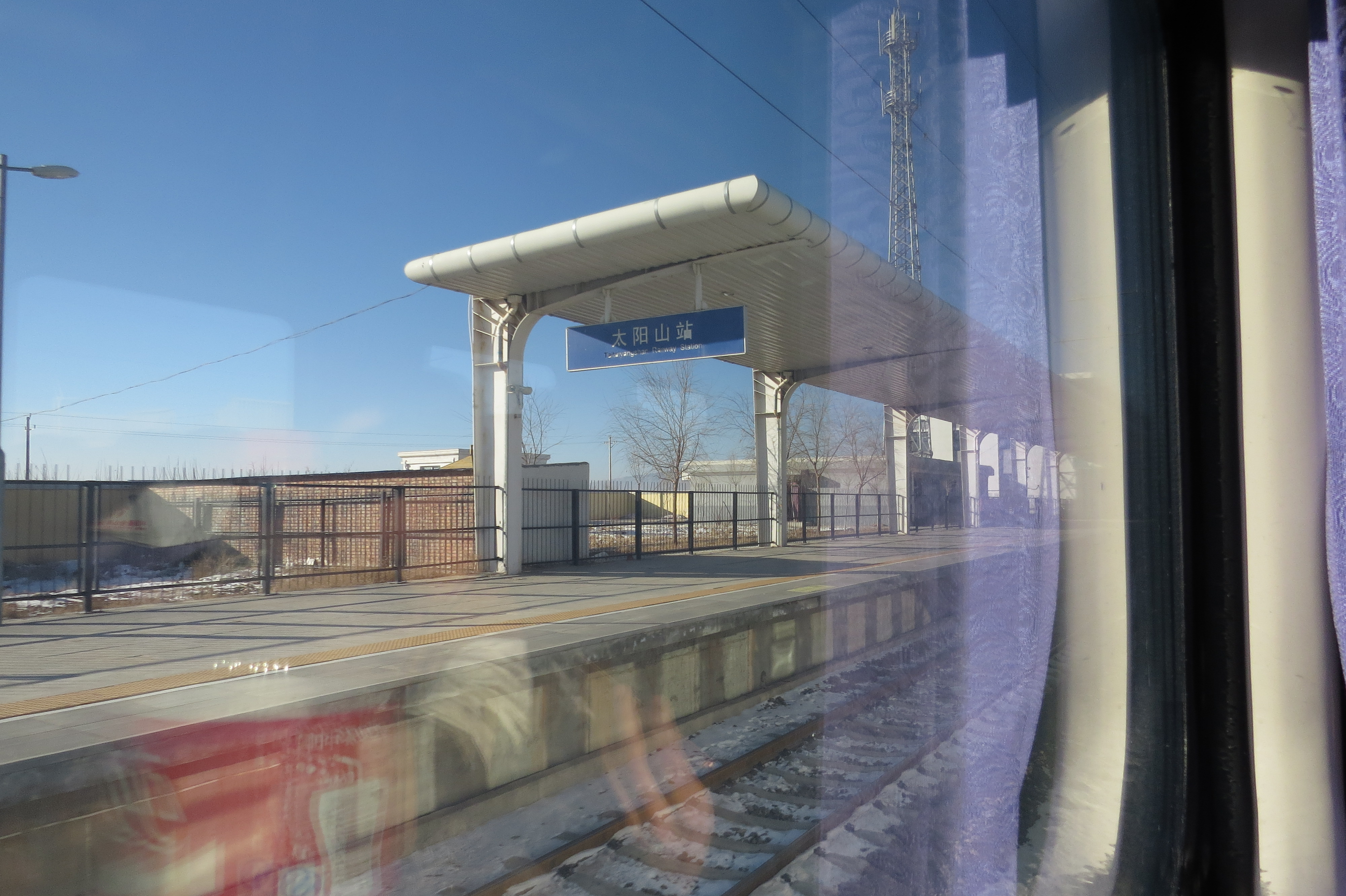 Just a small station on TZYR.